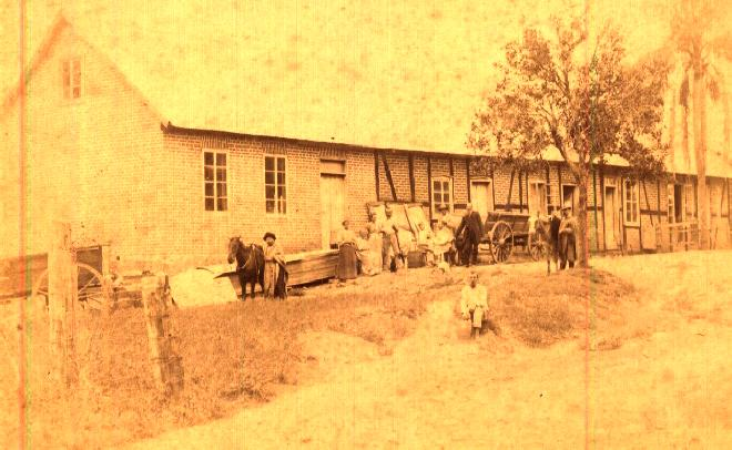 Residence and company Sociedade Imobiliária João Gerdau & Cia, named on that time as Gerdauesche Venda.